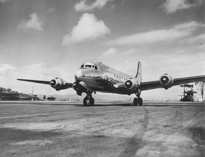 An Douglas C-54E (49510 A.C.)